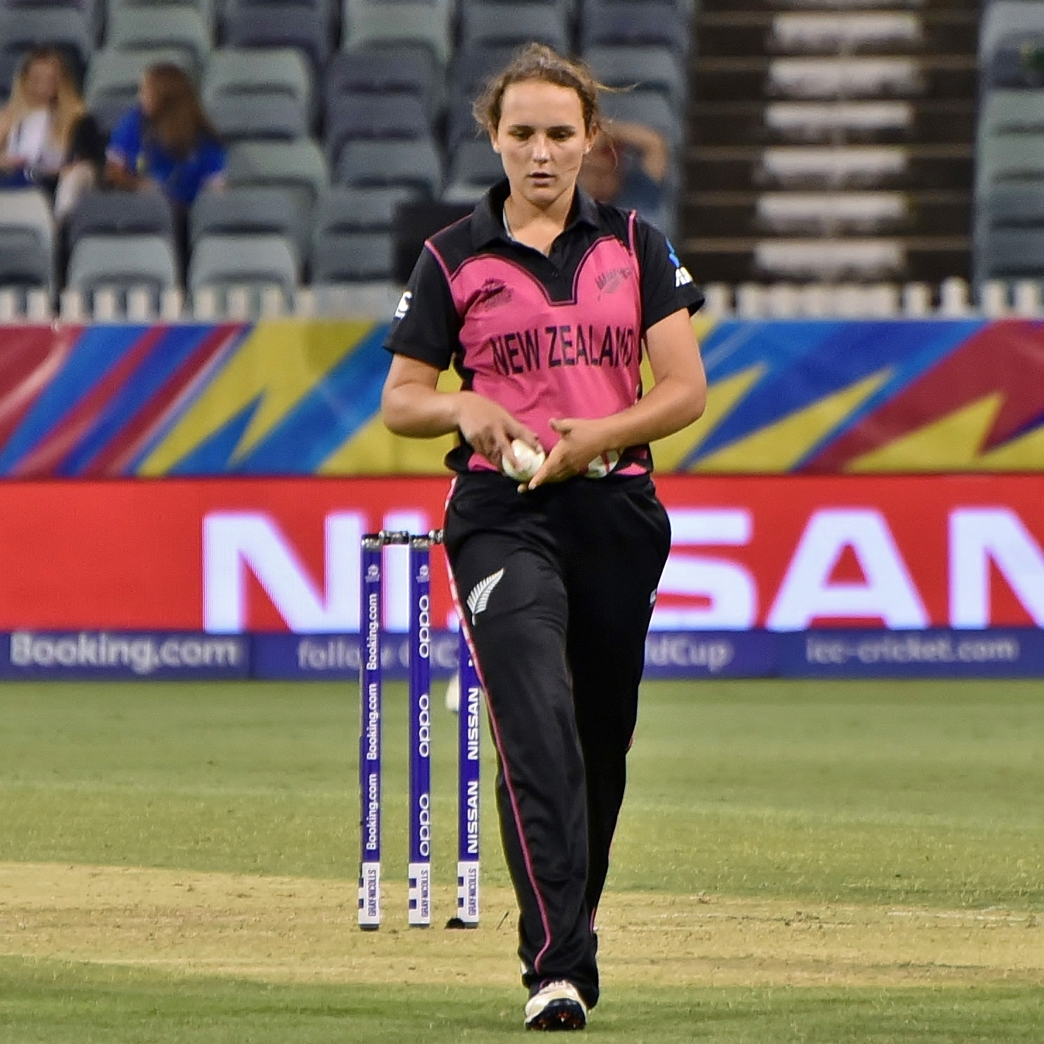 Amelia Kerr demonstrating how she grips the ball as a leg spiner while bowling for New Zealand against Sri Lanka during their 2020 ICC Women's T20 World Cup match at the WACA Ground in Perth, Australia